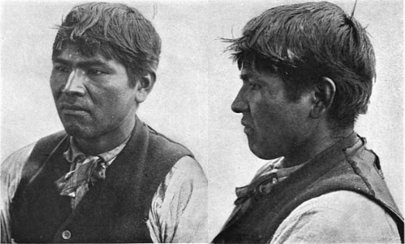 This is a 27 year-old man of the Maidu people, a Native American people of Northern California, United States. The photograph comes from the book Anthropometry of central California by anthropologist Franz Boas.